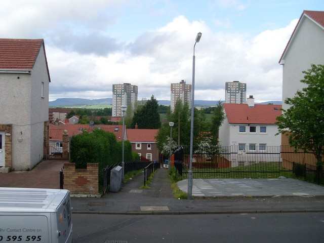 Looking to Milton high flats From Torogay Street.